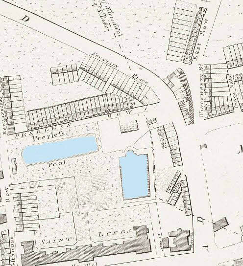 Peerless Pool was the first public open air bathing pool in London which opened in 1743 on the site of a former pond known as Perilous Pond. This plan is from c1800